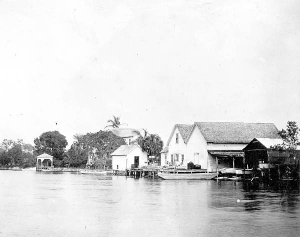 View of George W. Storter's home and trading post